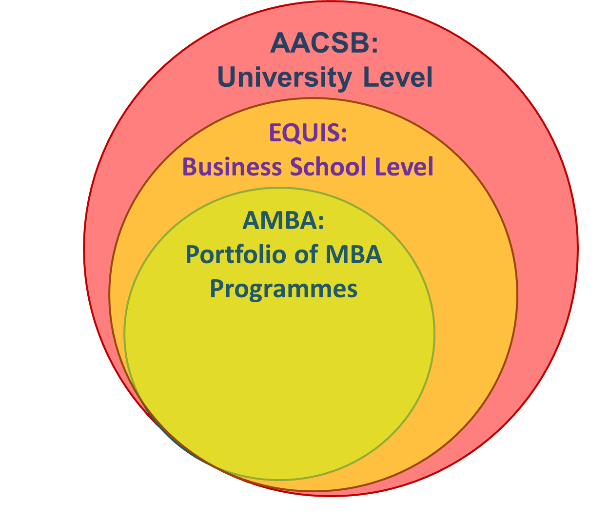 AACSB awards accreditation to the university. EQUIS awards accreditation to the business school. AMBA awards accreditation to the business school's portfolio of MBA programmes.